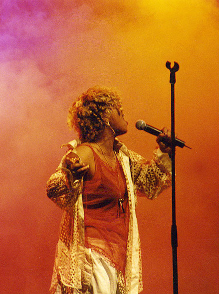 Neneh Cherry, performing live at the "Arena" (Vienna, Austria) during the "Man"-Tour (1996)